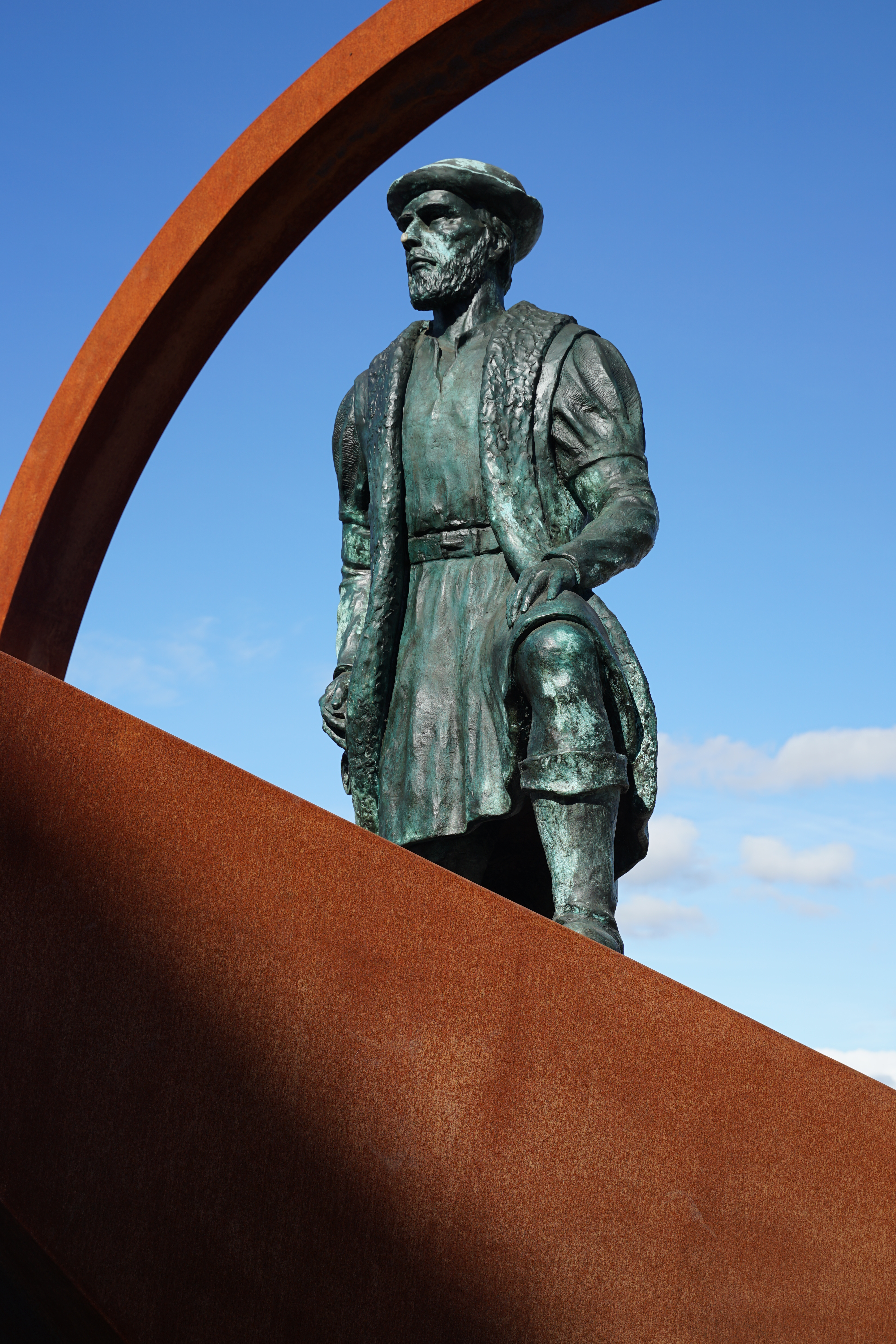 Statue of Ferdinand Magellan in Ponte da Barca, Portugal.